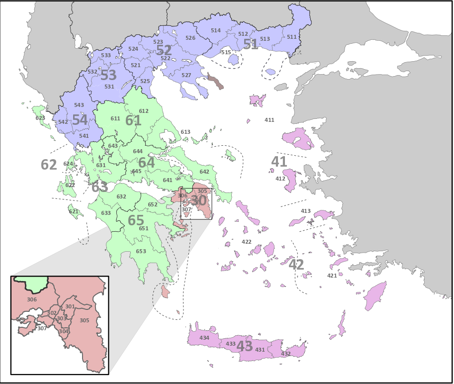 Map of Greek NUTS-Areas, Version of 2013